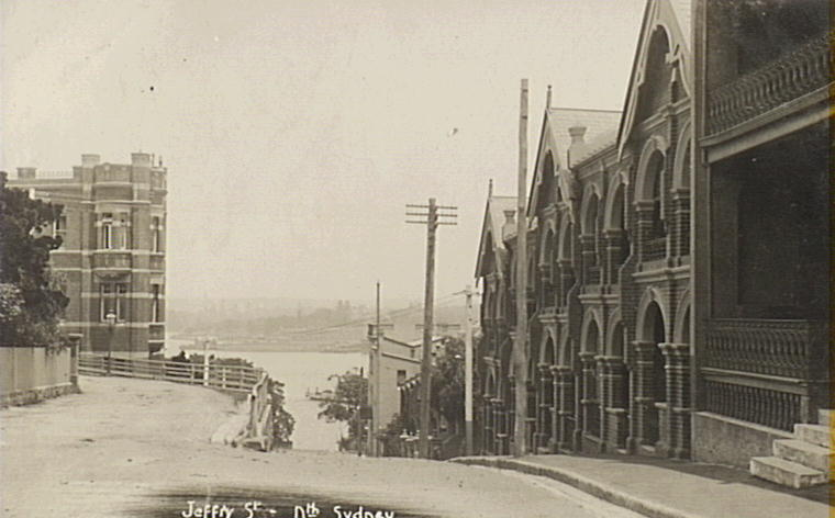 Circa 1905 Postcard of Jeffrey Street, Milsons Point, Sydney, New South Wales